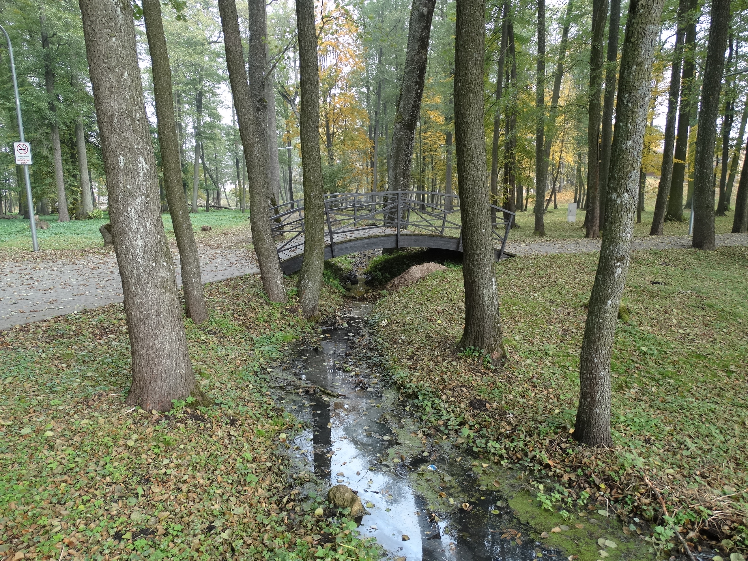 Park, Veisiejai, Lithuania